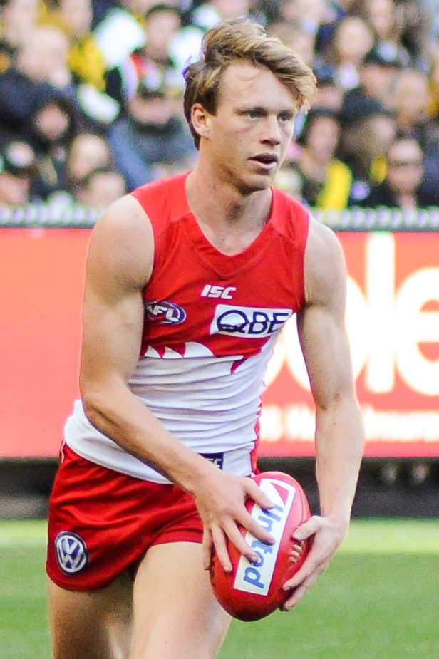 Callum Mills during the AFL round thirteen match between Richmond and Sydney on 17 June 2017 at the Melbourne Cricket Ground in Melbourne, Victoria.